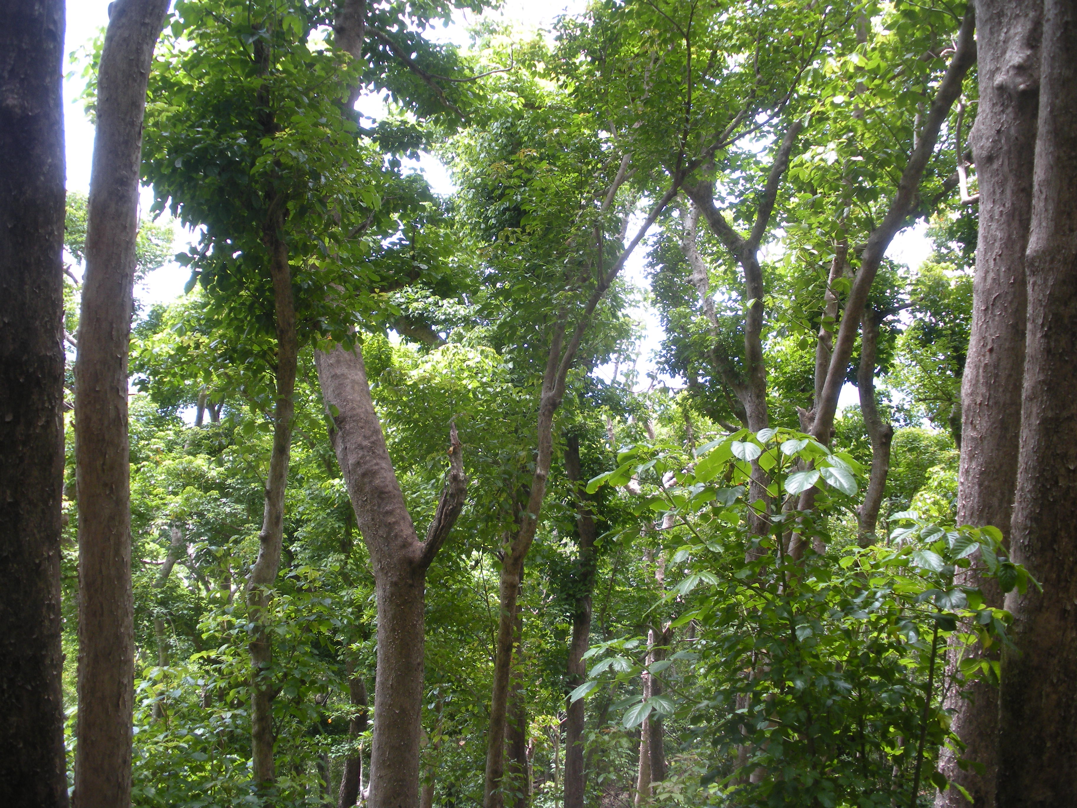 Bischofia javanica in Bonin Islands Hahajima